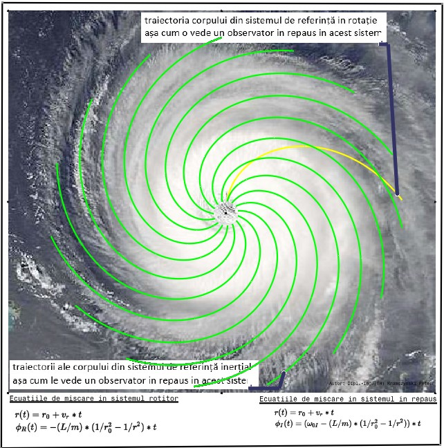 Equtions of motion Coriolis ro